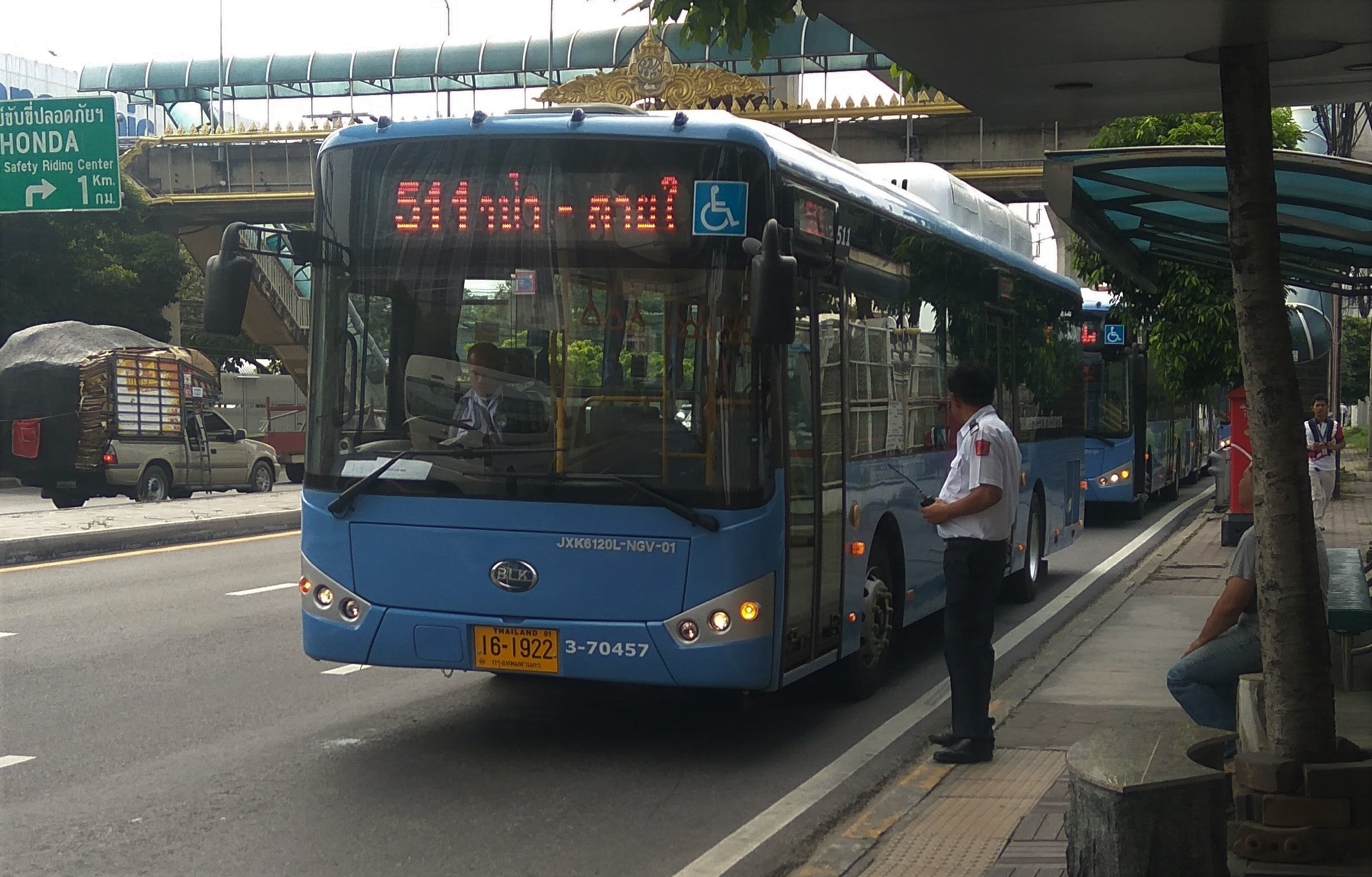 BMTA 511(3-70457)